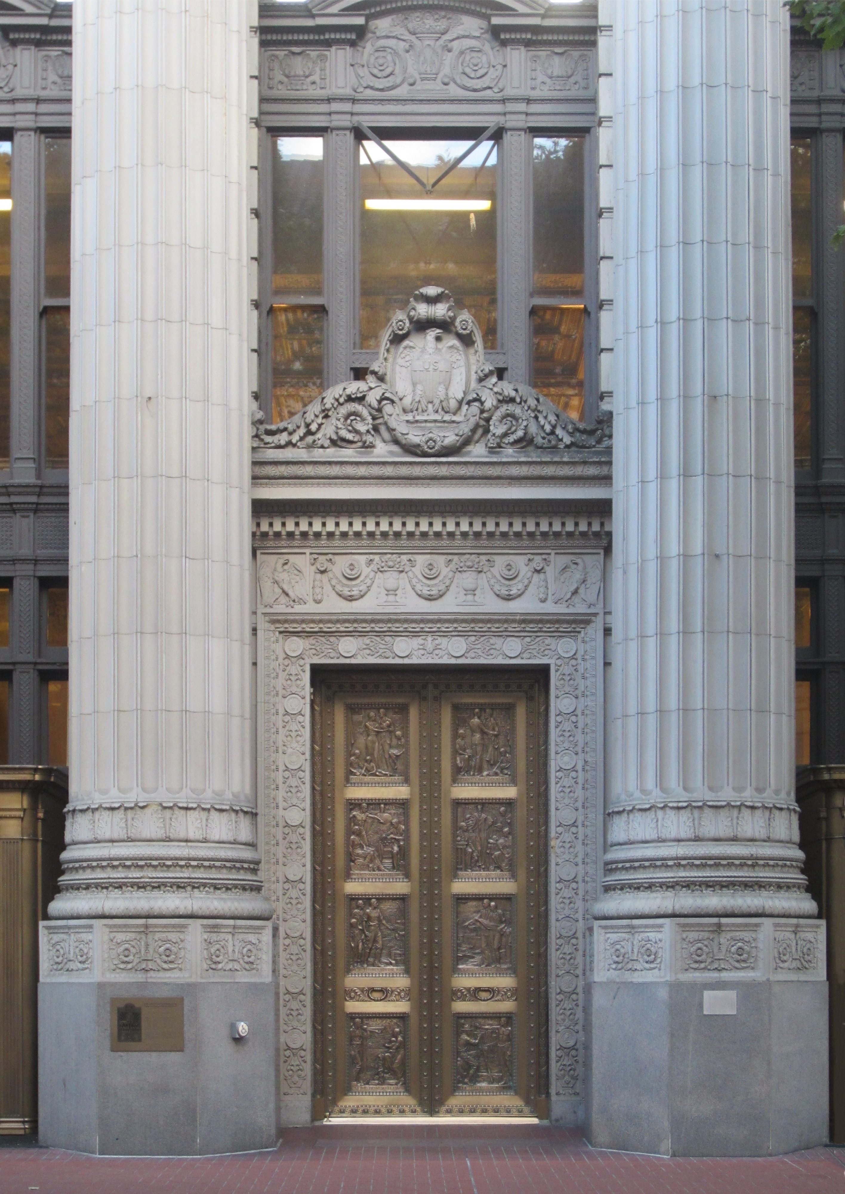 The United States National Bank Building, Portland, Oregon. This is the original main entrance to the building (the central entrance on the building's eastern end), dating from 1917. The eight bas relief bronze panels on the doors were added later, in 1931, and were designed by Avard Fairbanks.